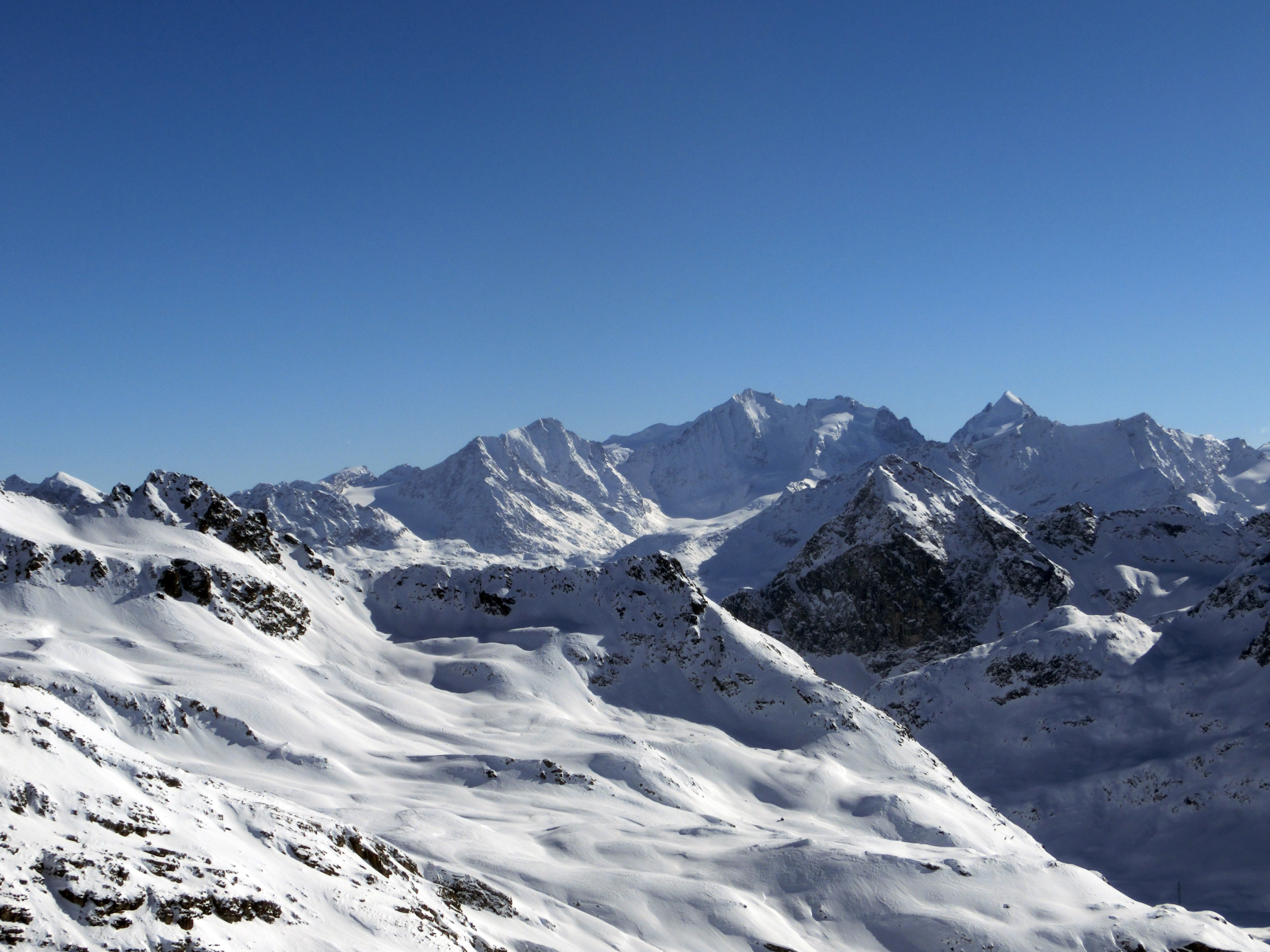 From left to right: Piz Surlej, Piz Arlas, Munt Arlas, Crasta da Boval, Piz Boval, Piz Cambrna, Piz Tschierva, Piz Morteratsch, in the background Piz Privlus, Bellavista, in the foreground more prominent Pizzo Bianco, Piz Bernina, La Spedla, Piz Umur, Piz Scerscen, on the ridge the mountain station of Corvatsch, in the background Schneekuppe, in the foreground Piz Mortèl und Piz Corvatsch as seen from Piz Campagnung (Bivio, Marmorera), Grison, Switzerland